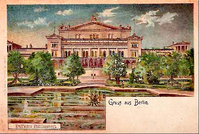 Postcard with image of the so called "Krolloper", a historic amusement-center and theatre in Berlin.